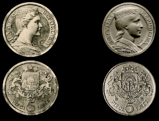 Latvian coin, 5 Lati, 1929, drawing by Rihards Zariņš (1869-1939), Latvian artist and director of Latvian GPO (left) and plaster form by Percy Metcalfe (1895-1970), medalist at Royal Mint in London (right). Work was published 1929-12-23